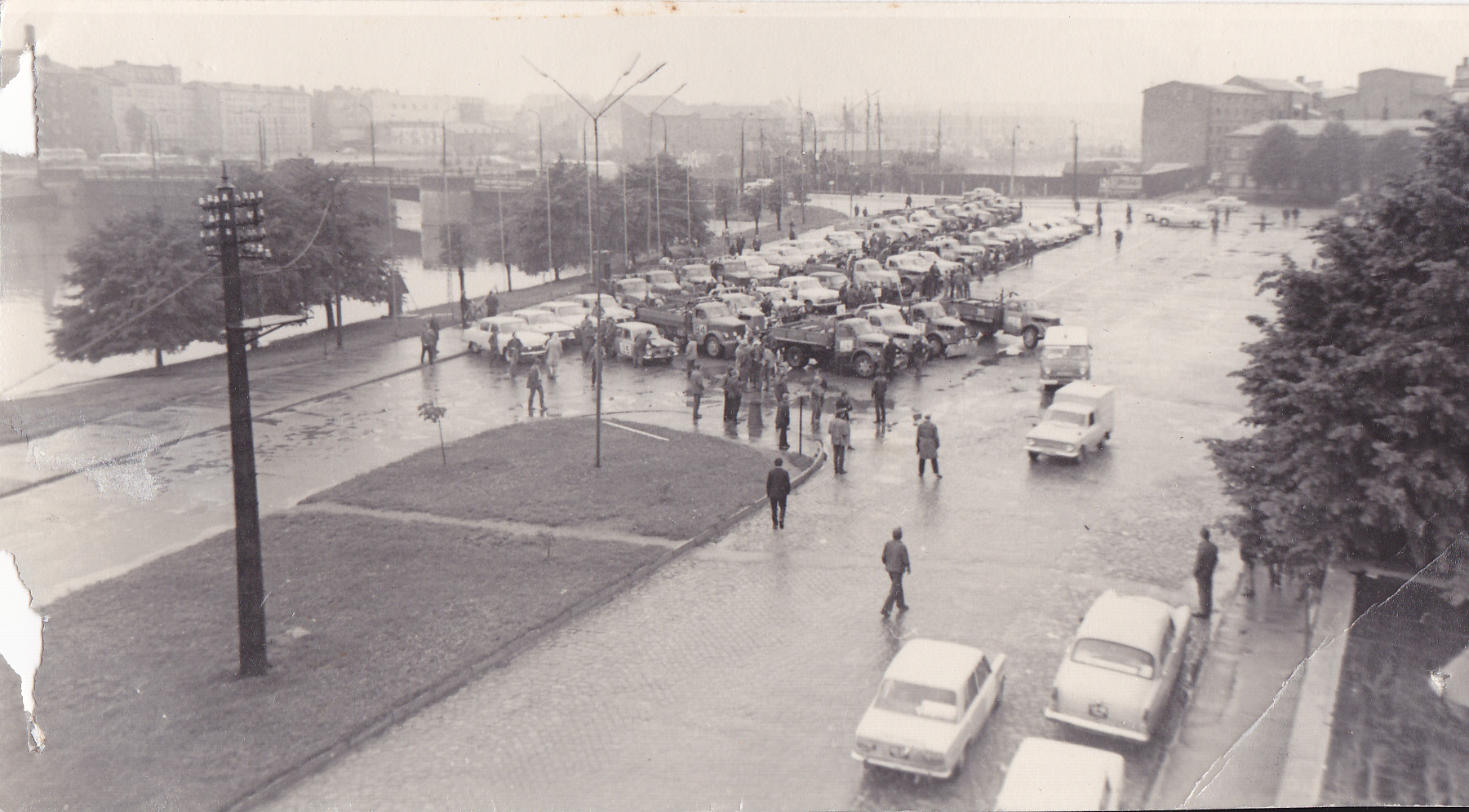 Rallijs "Kurzeme 1965"